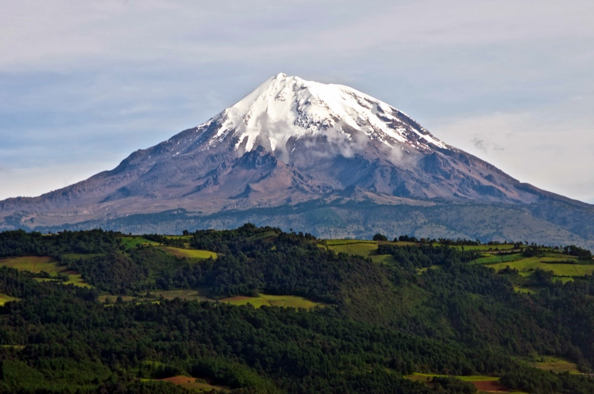 Pico de Orizaba, Mexico